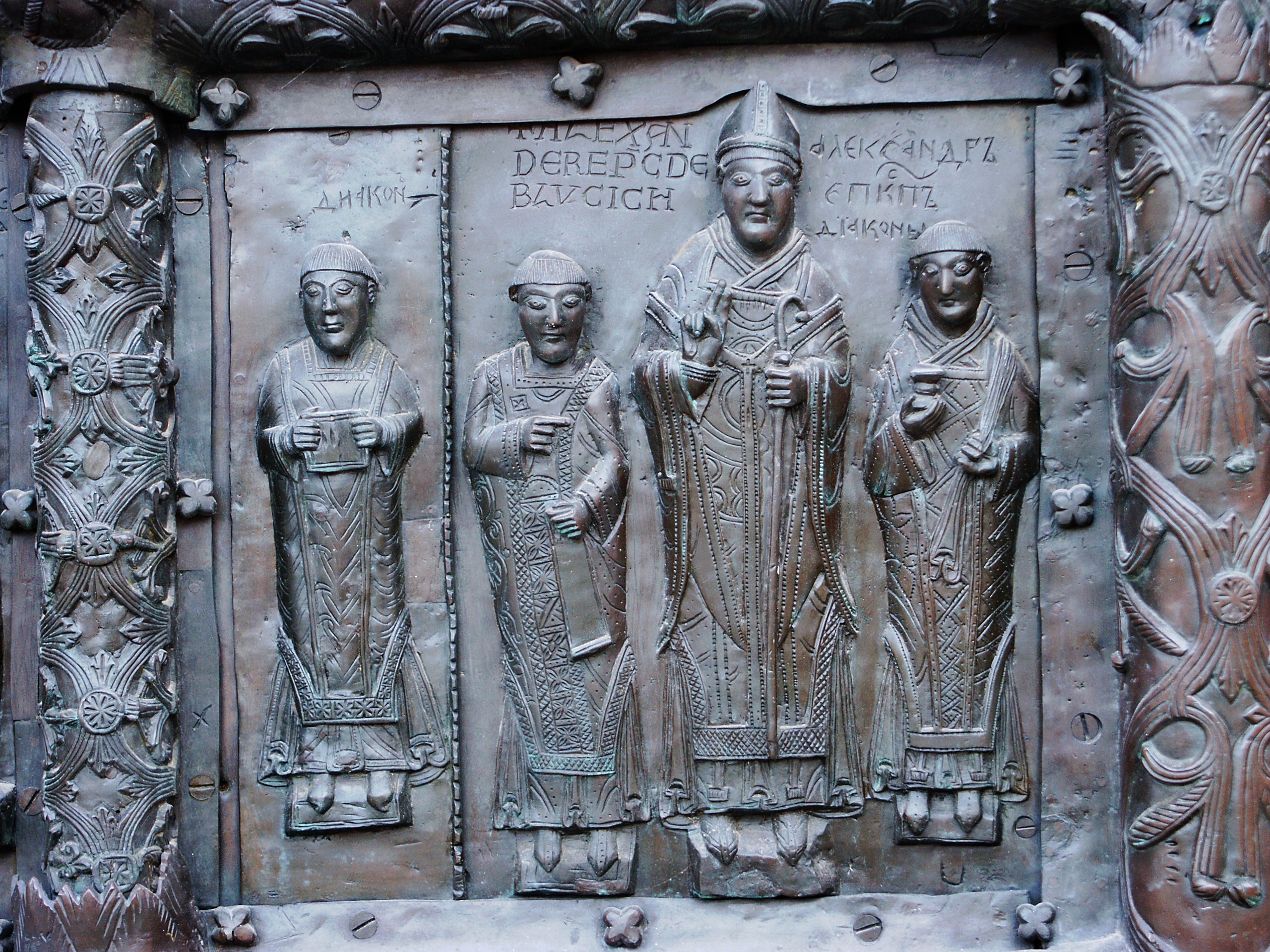 Płock Door in Novogrod. Slavic Diakons and original Church Slavonic inscriptionСловѣньскъ / ⰔⰎⰑⰂⰡⰐⰠⰔⰍⰟ: Діѧконы славѧнске жірадцы з арьгіналвном текстом на двере храма в Великом Новогроде. Скрипт: „+ЛѠЕ ЛѠЕХѦНО ѦНI АНІОЛЕ ЛЕКО СІН ѦНА ДАРЪ”.